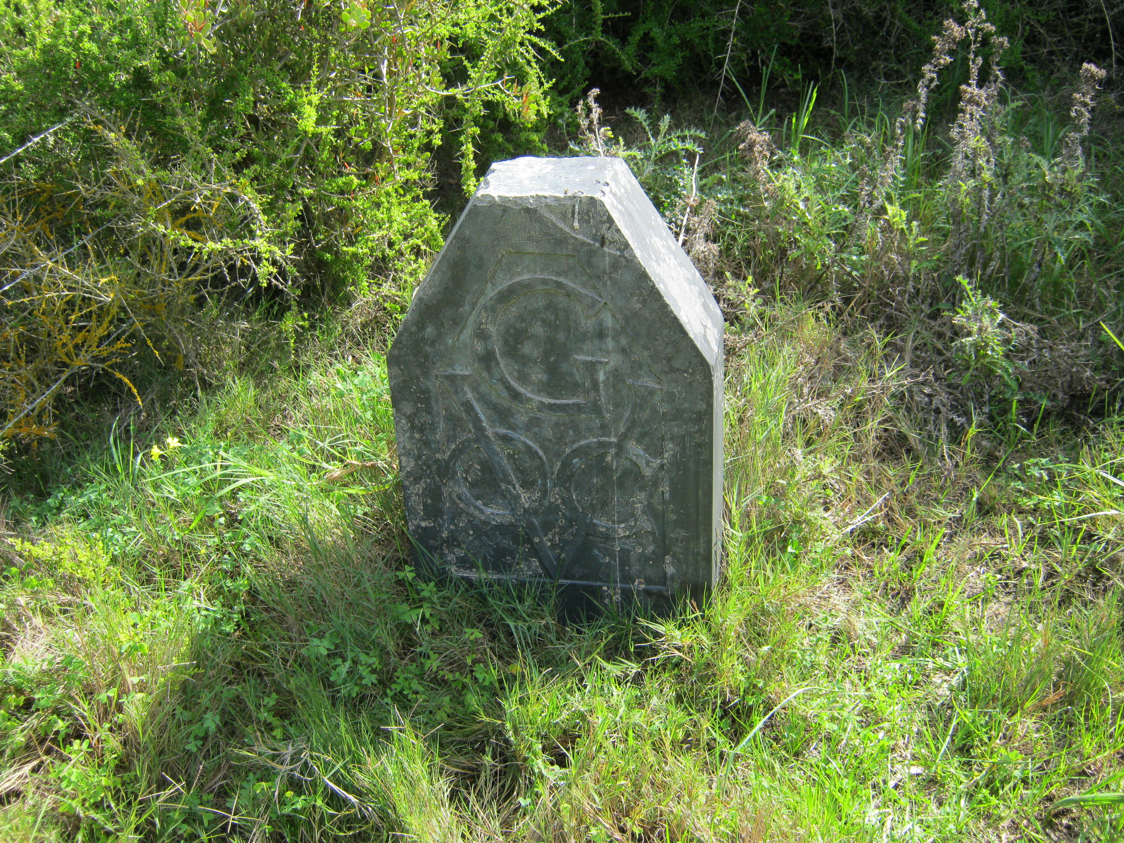 This media shows a South African Protected Site with SAHRA file reference 9/2/042/0001/002See also: External entry in South African Heritage Resource Agency database.